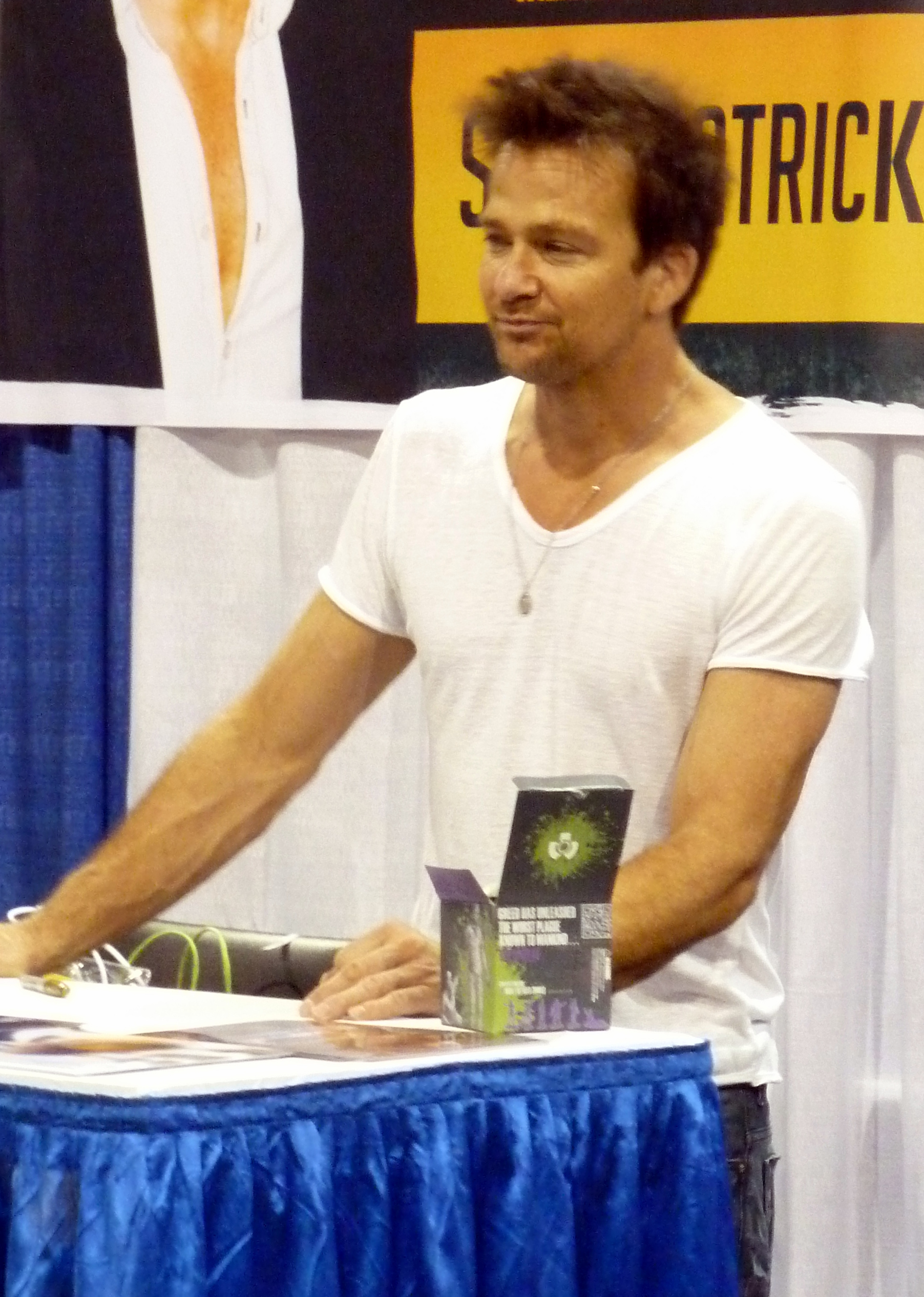 Sean Patrick Flanery 02